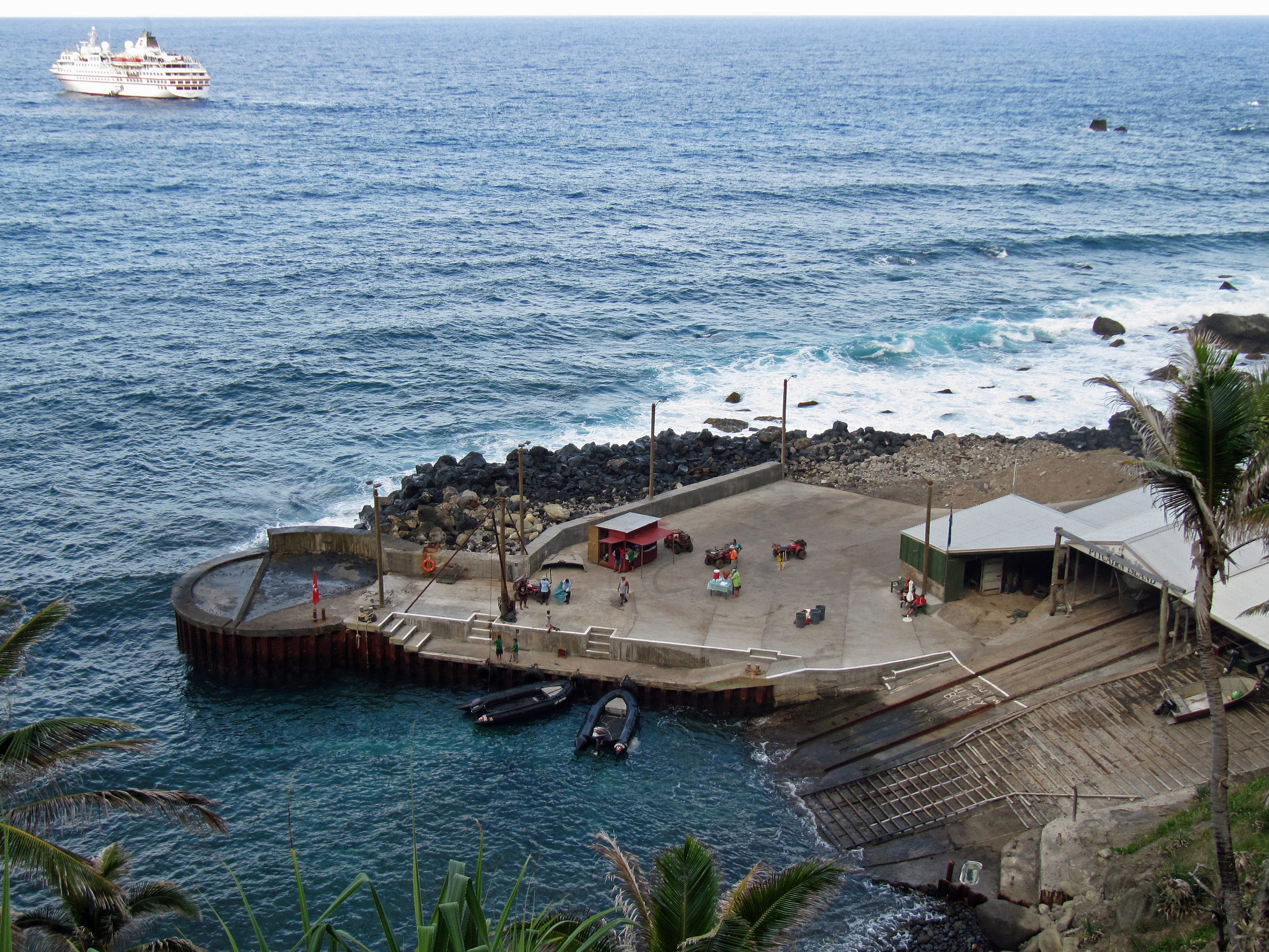 Pitcairn landing site